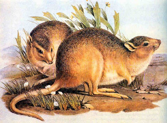 Caloprymnus campestris by John Gould (died 1881), book illustration from Mammals of Australia